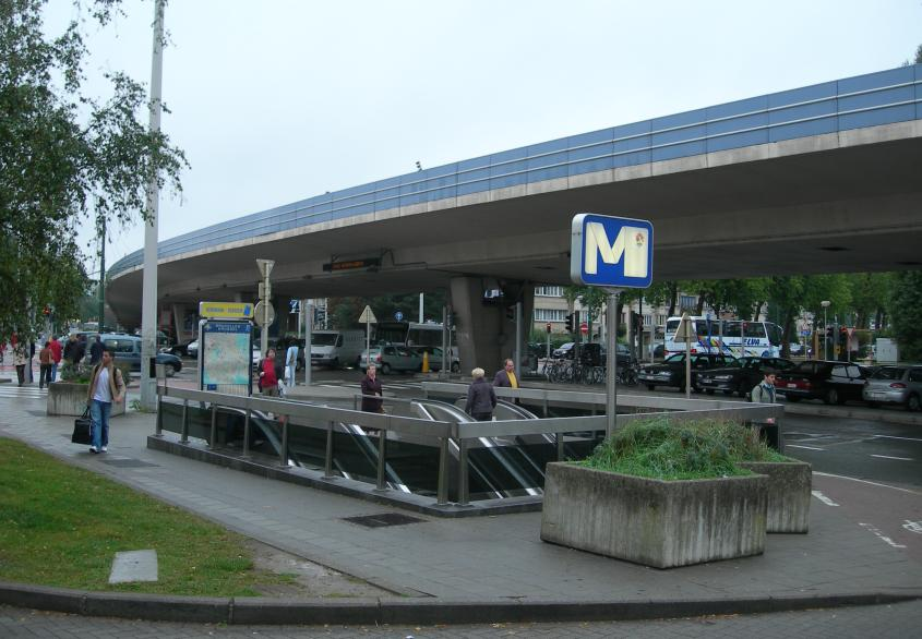 Entrance of Herrmann-Debroux station, Brussels metro